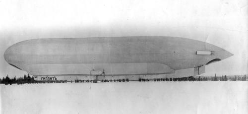 Semi-rigrid russian airship «Gigant»